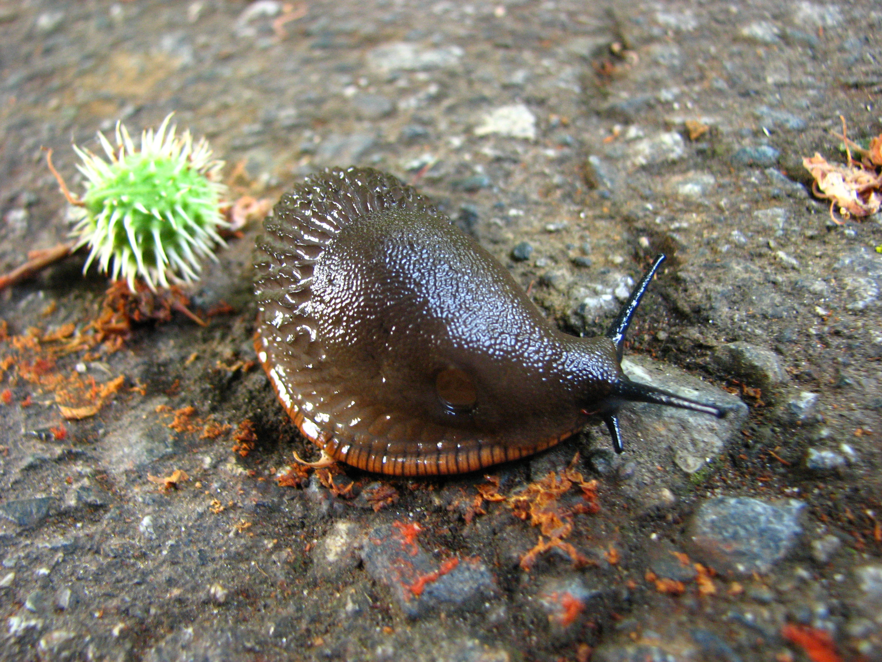 An unidentified slug (one of two introduced species, either Arion ater or Arion rufus) taken in Vancouver's VanDusen Botanical Garden. The slug was found creeping across a foot path in the garden and I stopped to take a photo. Photography credit - Gregory Badon.